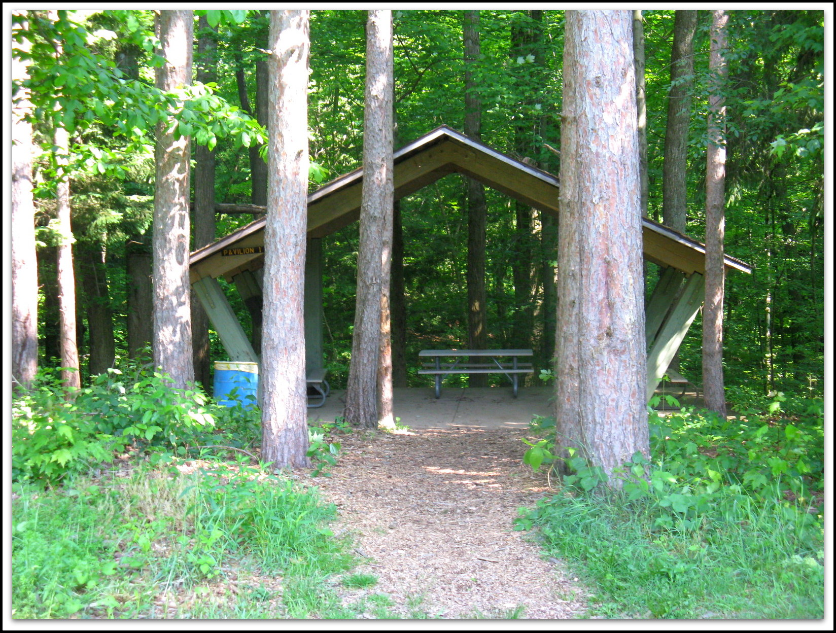 Wooster Memorial Park, to the west of Wooster, Ohio, United States.